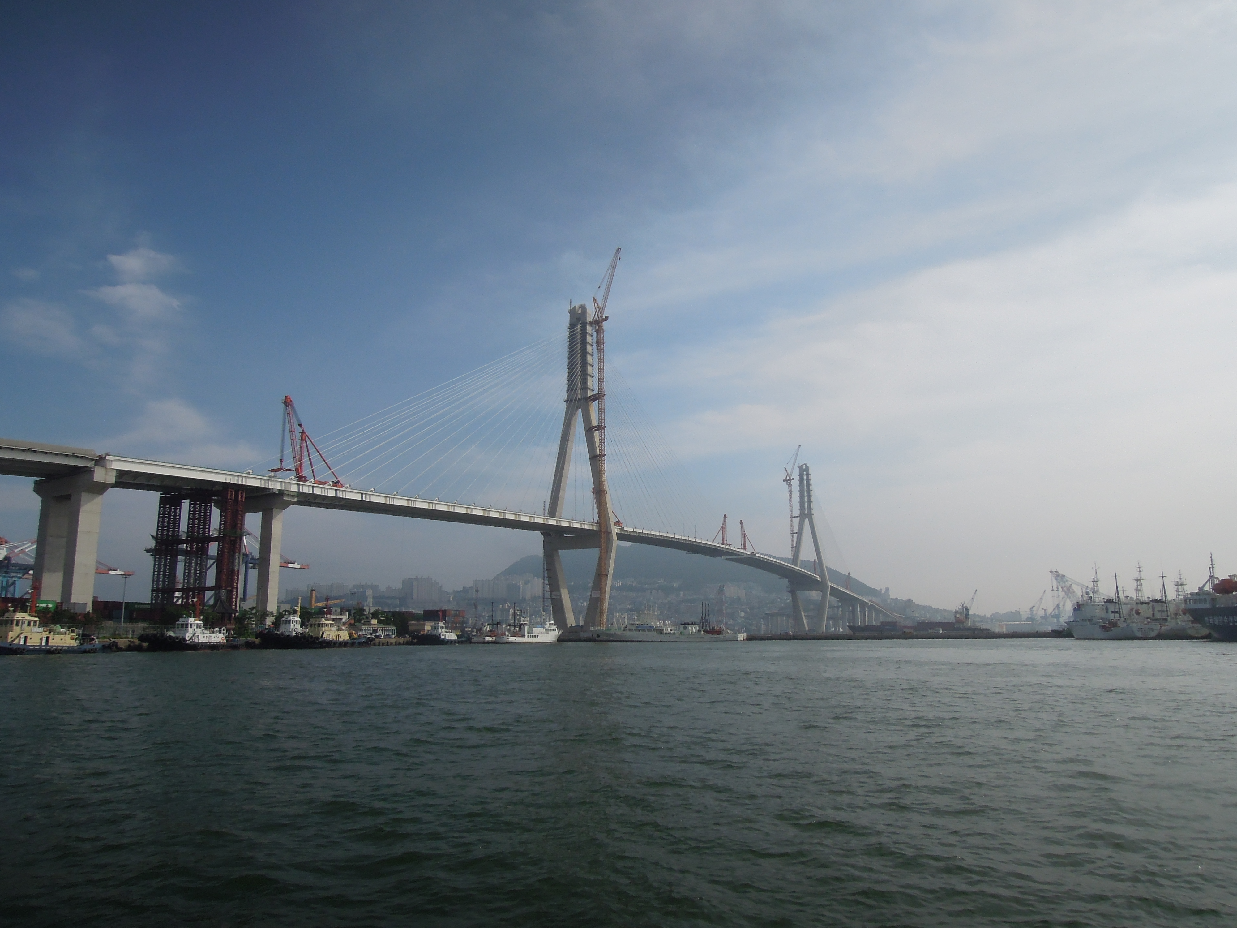 Bukhang bridge in Busan